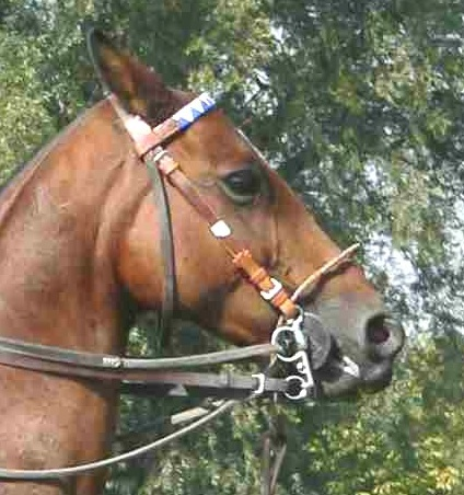 Detail of polo pony: Pelham bit, bit guard, double reins, standing martingale, roached mane.